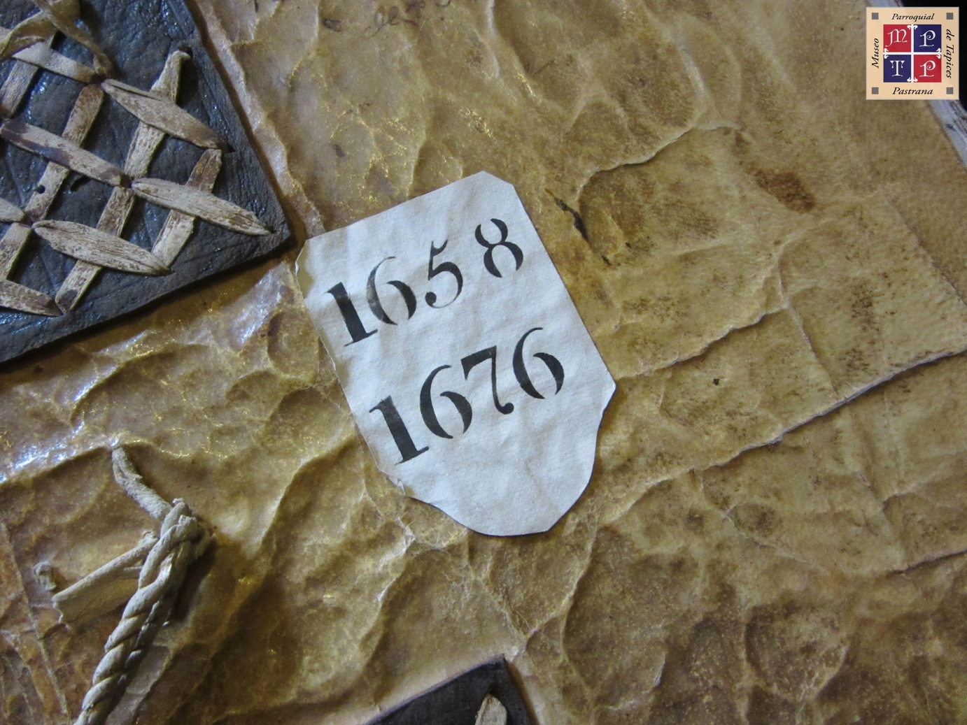 Legado del Archivo Municipal de Pastrana. Guadalajara.